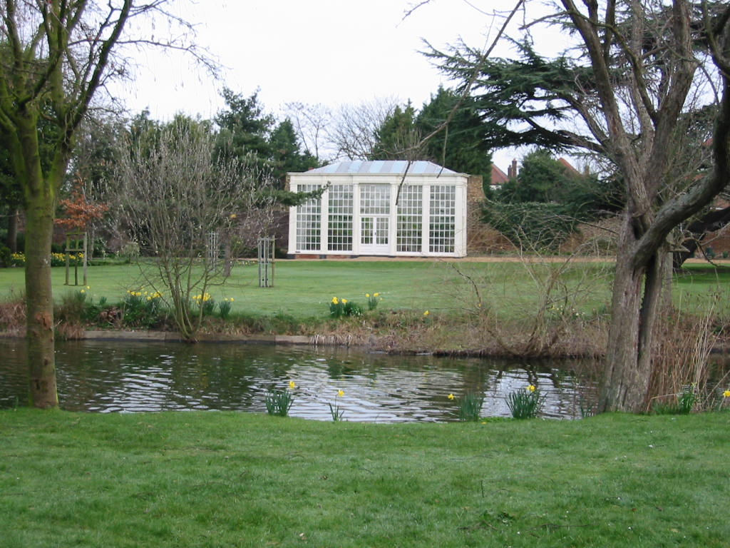 Ornagery at Langtons House, London. I took the picture myself.